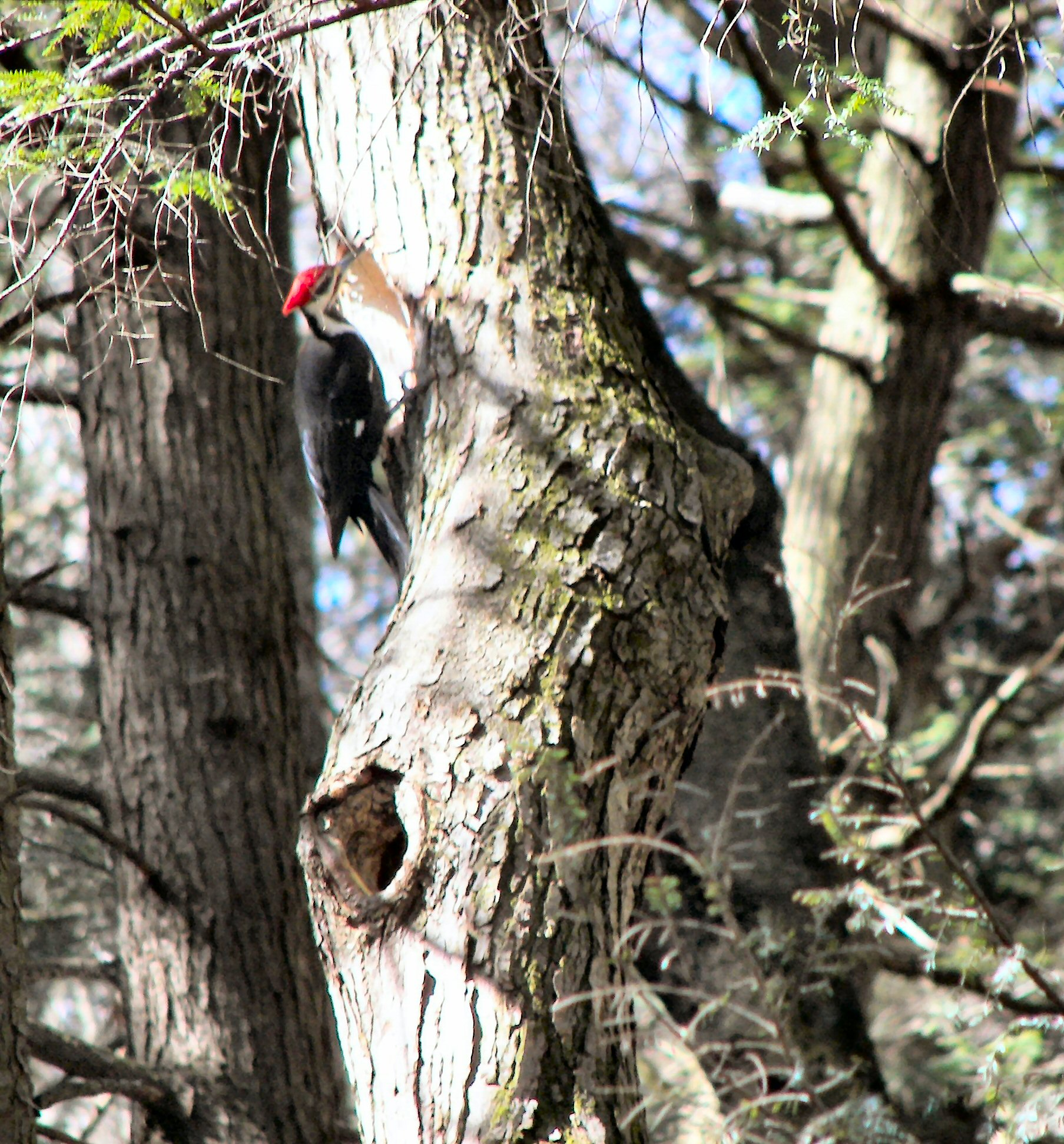 Thanks to the help of the Field Guide:Birds of the World group, this is a Pileated Woodpecker, male. His proper name is Dryocopus pileatus pileatus. Taken in Perry County, Pennsylvania.